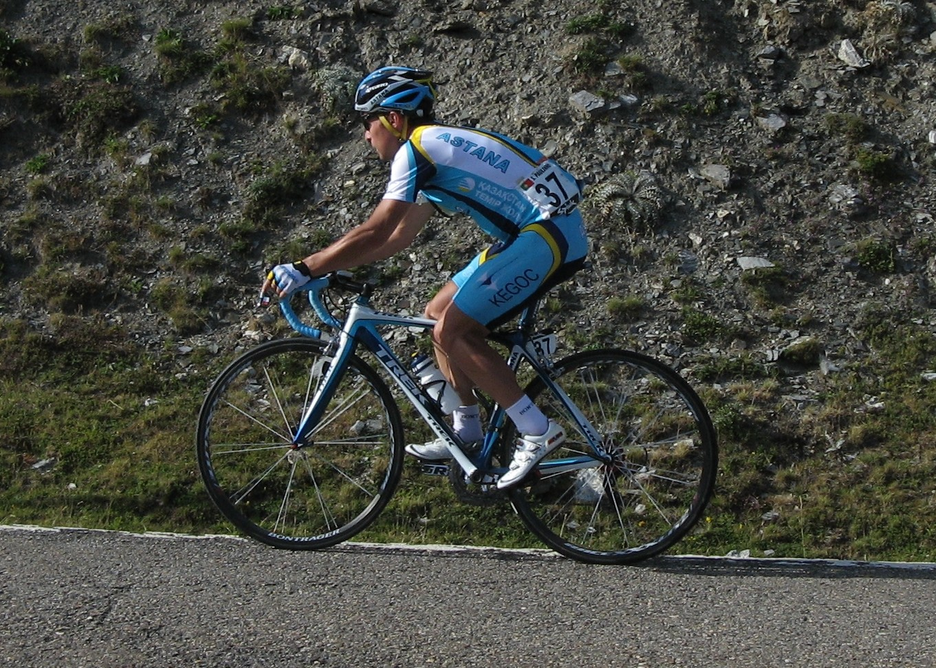 Sérgio Paulinho, 2008 Vuelta a España, 8th stage, Port de la Bonaigua, Spain.